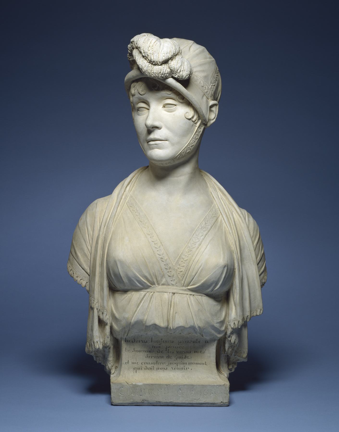 Chinard, a sculptor from Lyons, developed his neoclassical style in Rome, where he studied both ancient statuary and the works of contemporary masters. An ardent supporter of the French Revolution and later of Napoleon's empire, he received commissions for a number of important monuments and triumphal arches (never realized) as well as portrait busts. His sitters included Napoleon's first wife, the empress Josephine, the philosopher Jean Jacques Rousseau, Mme Récamier, the renowned beauty and leader of society, and Napoleon's stepson, Prince Eugène de Beauharnais. This portrait of the sculptor's first wife, Antoinette Perret, whom he married in 1787, was produced after her death.